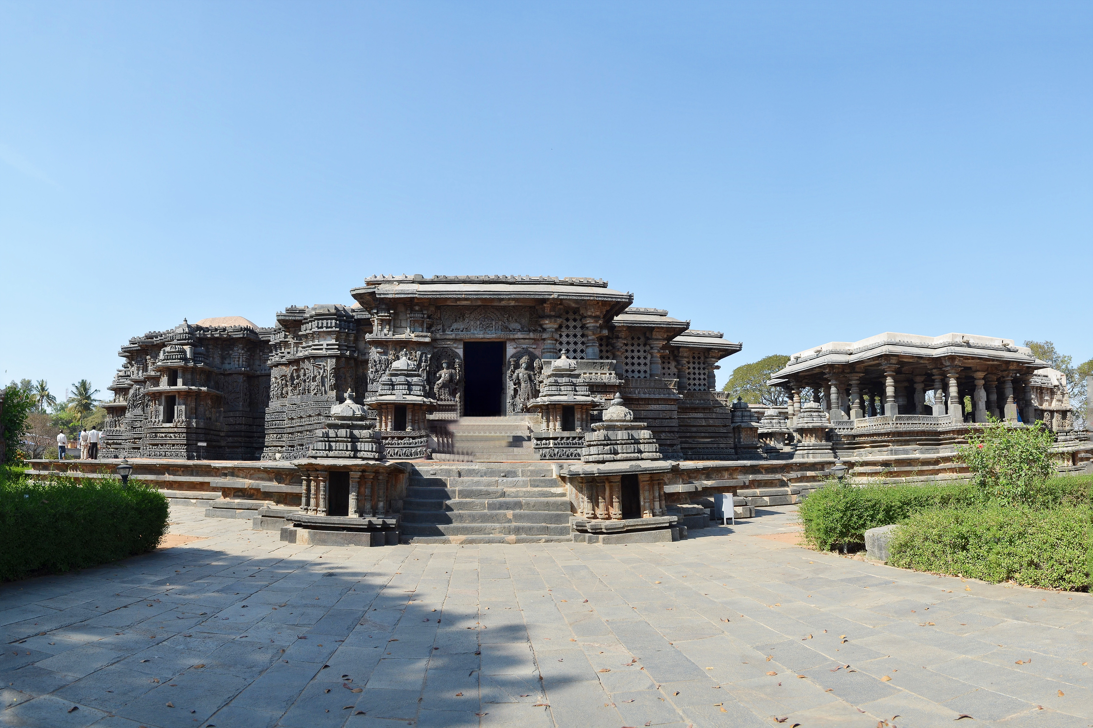 Halebidu